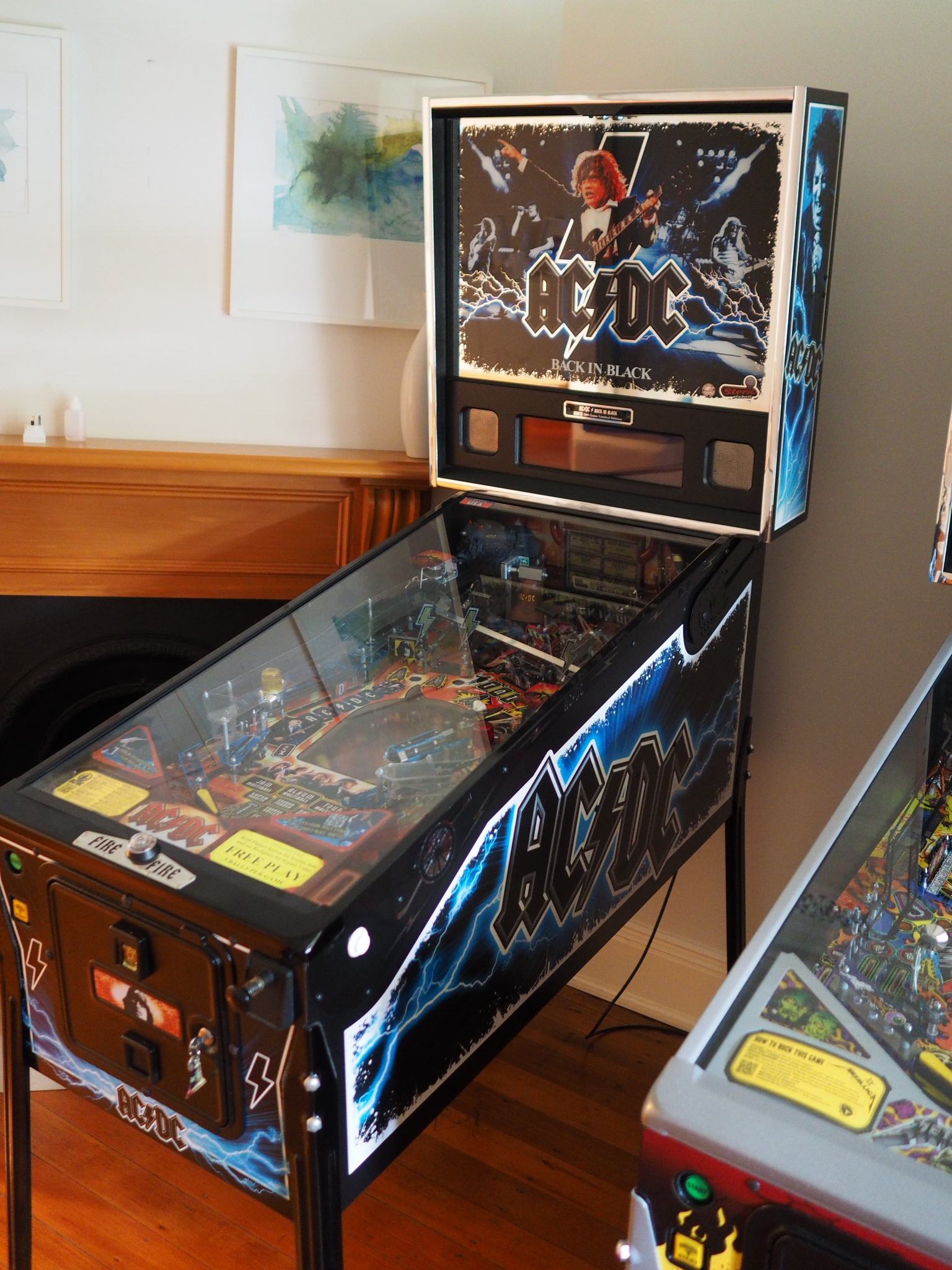 The AC/DC pinball machine, produced by Stern Pinball. Metallica, also produced by Stern, can be seen on the right.